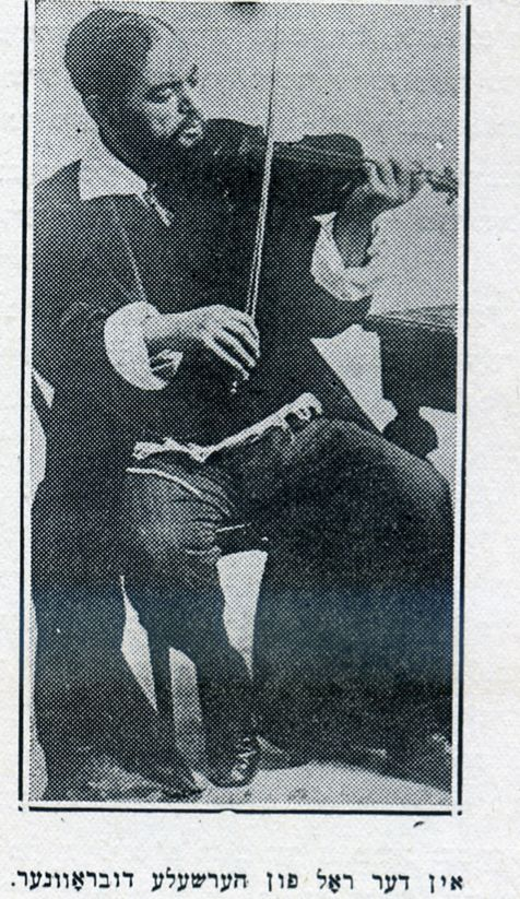 David Kessler in his role as Hershele Dubrovner